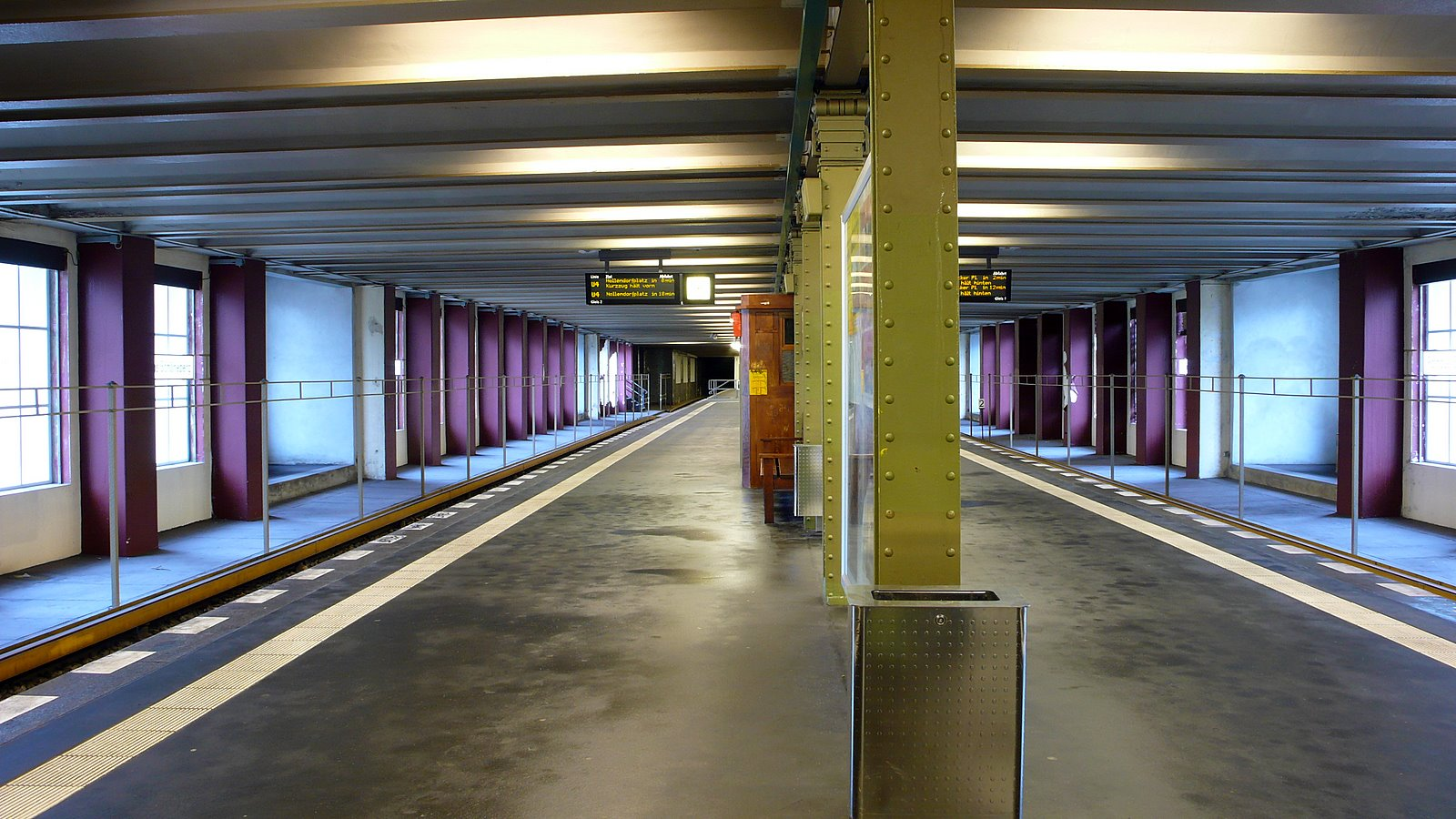 Rath-schoeneberg subway station